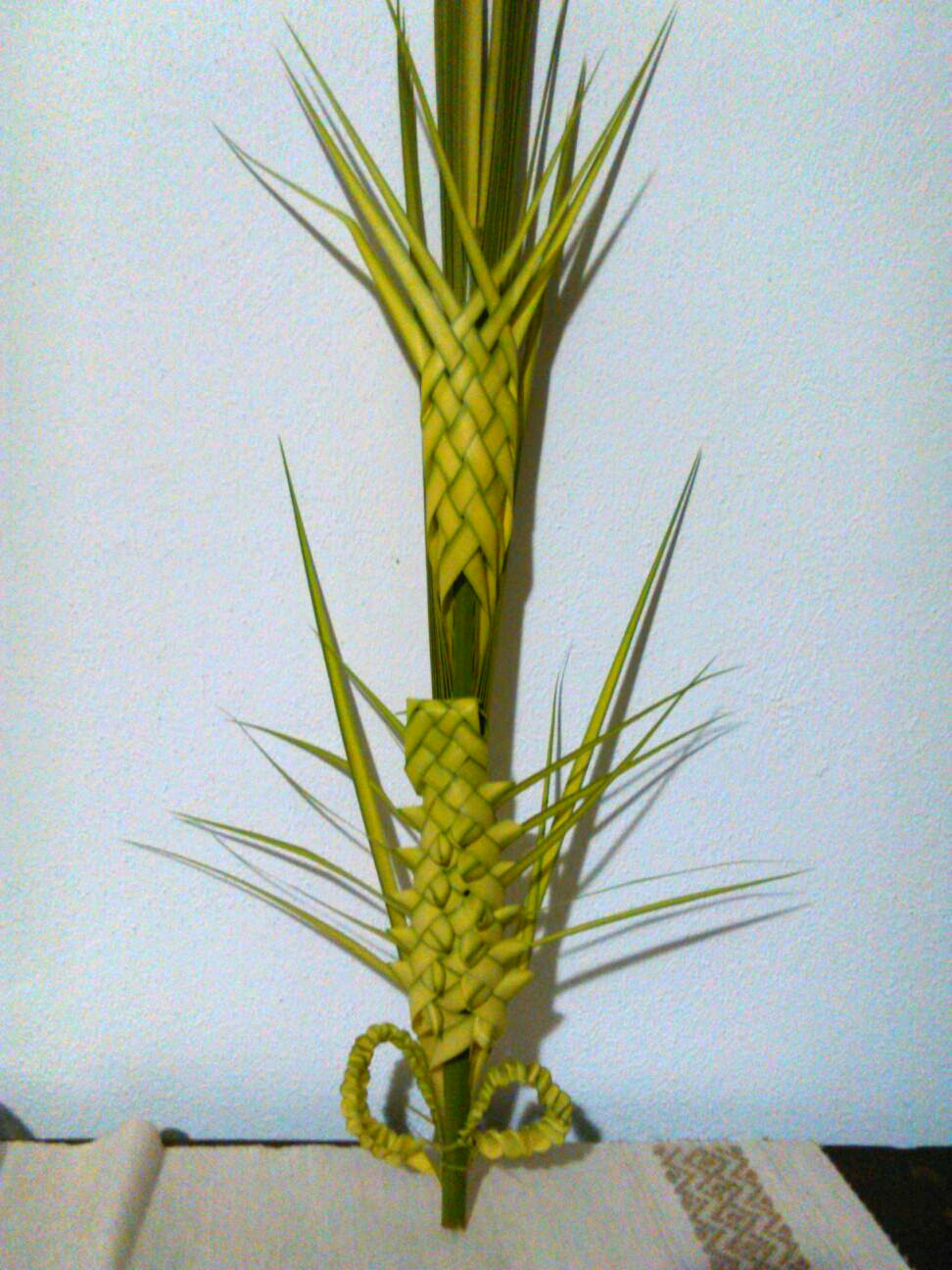 Intreccio con due rigonfiamenti